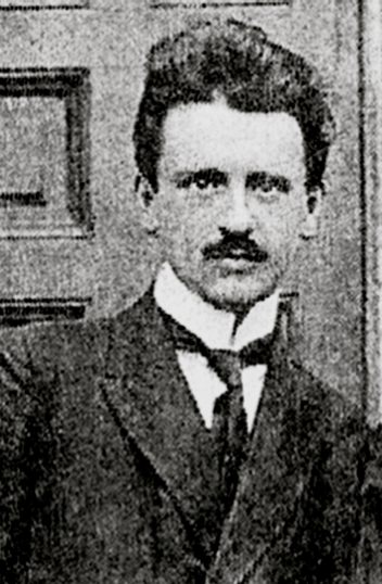 Zoltán Tildy and his future wife, Erzsébet Gyenis in 1914. They married in 1916. A crop.